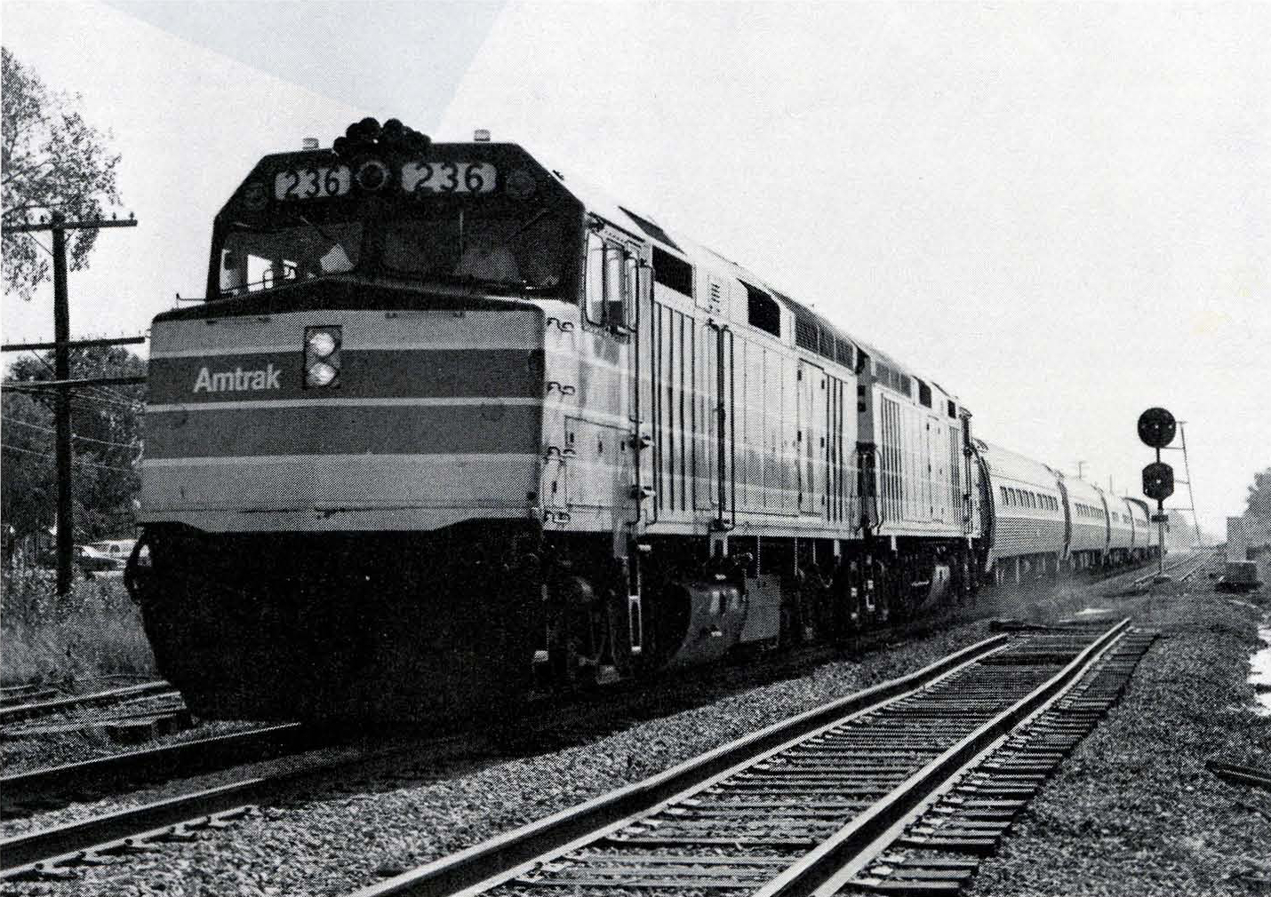 The first northbound Hoosier State in Lansing, Illinois in October 1980